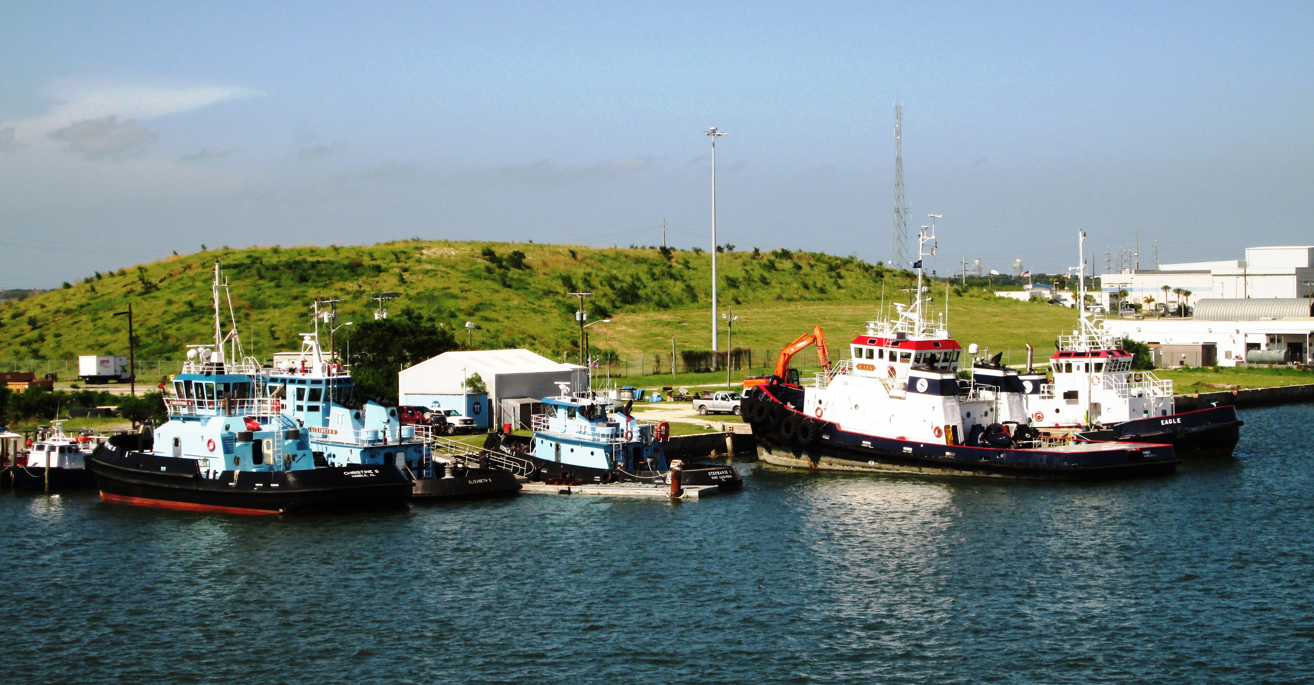 Tugboats at dock in Port Canaveral, Florida, is owned by MSC Cruises.